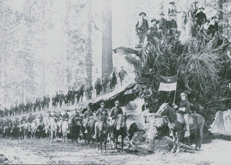 Reverse image of F Trp, 6 US Cav taken at the Fallen Monarch tree in Yosemite National Park.